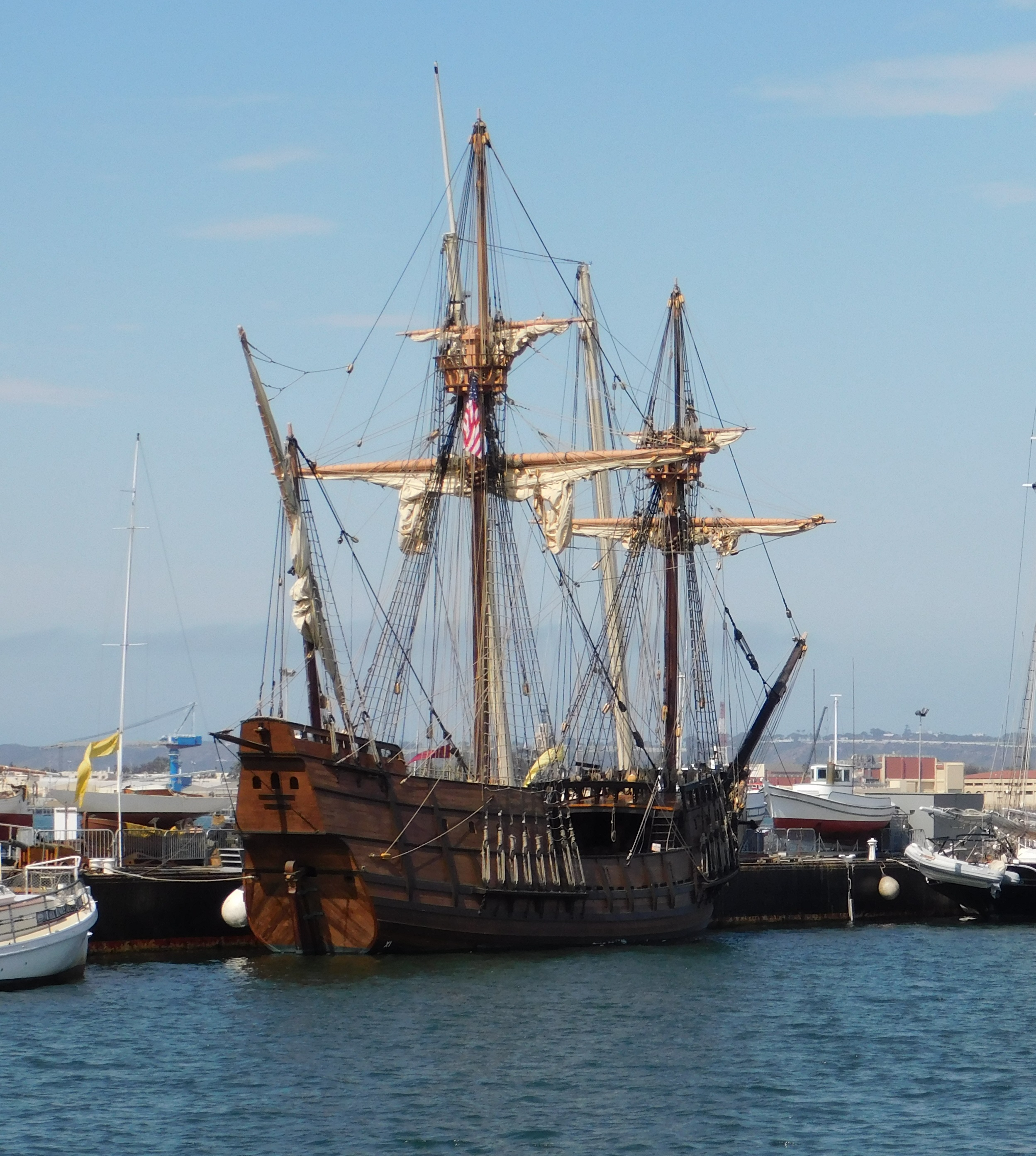 Replica of San Salvador at the Maritime Museum of San Diego, in California, USA. San Salvador was the ship that brought Juan Rodríguez Cabrillo to San Diego Bay in 1542, making him the first European to reach what became California. This replica was launched in 2015 and regularly sets sail on sightseeing tours.